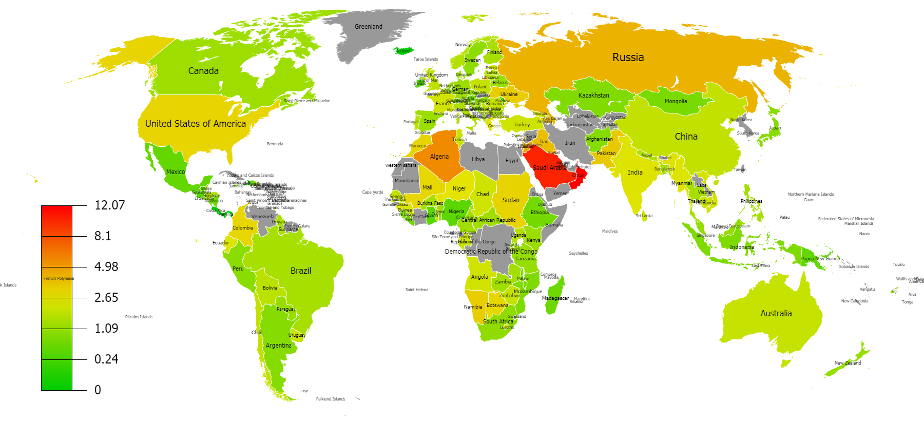 Military Expenditures as percent of GDP 2017 from World Bank data